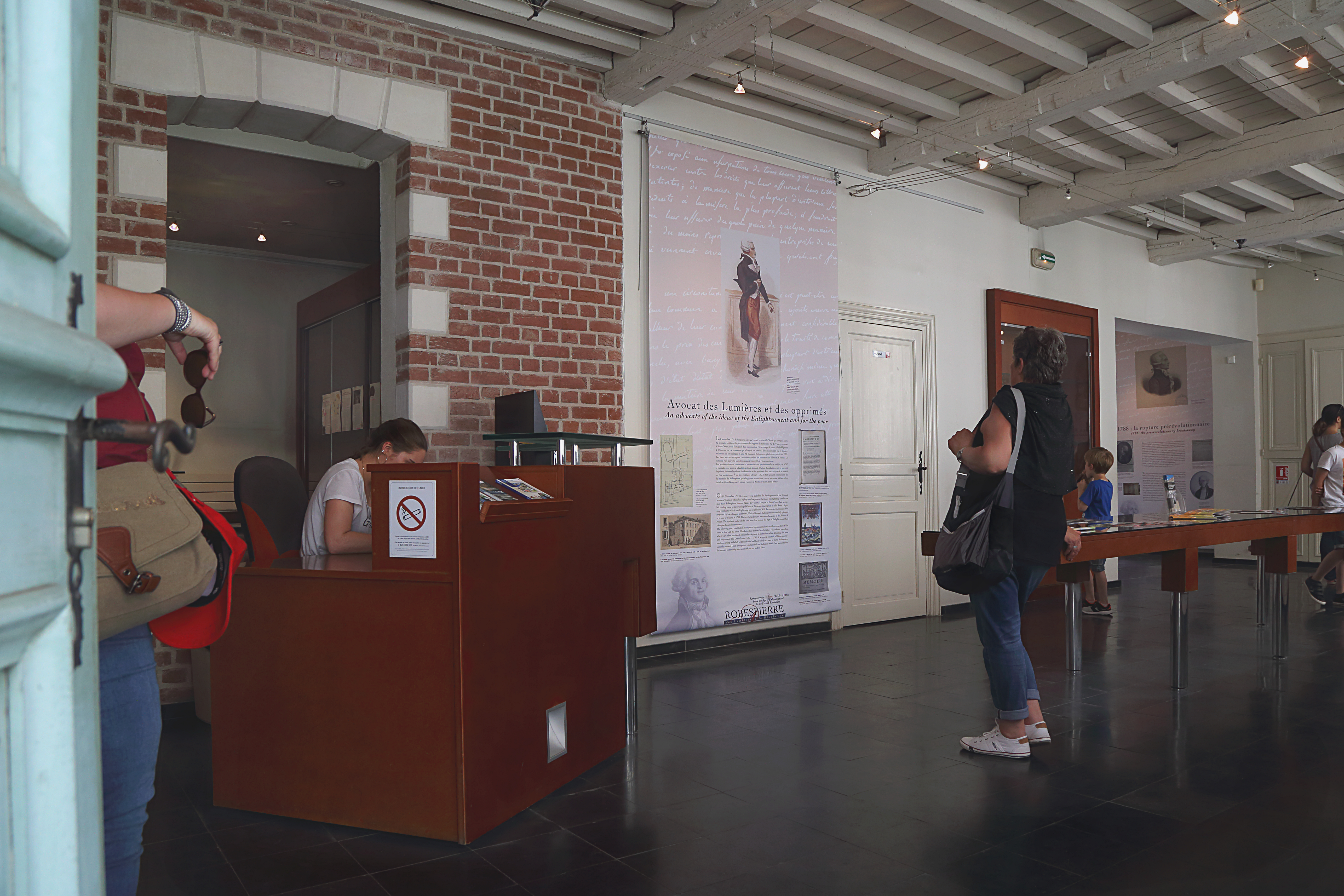 Interior of the house of Maximilien de Robespierre (museum at the time of the photo) in Arras, France.